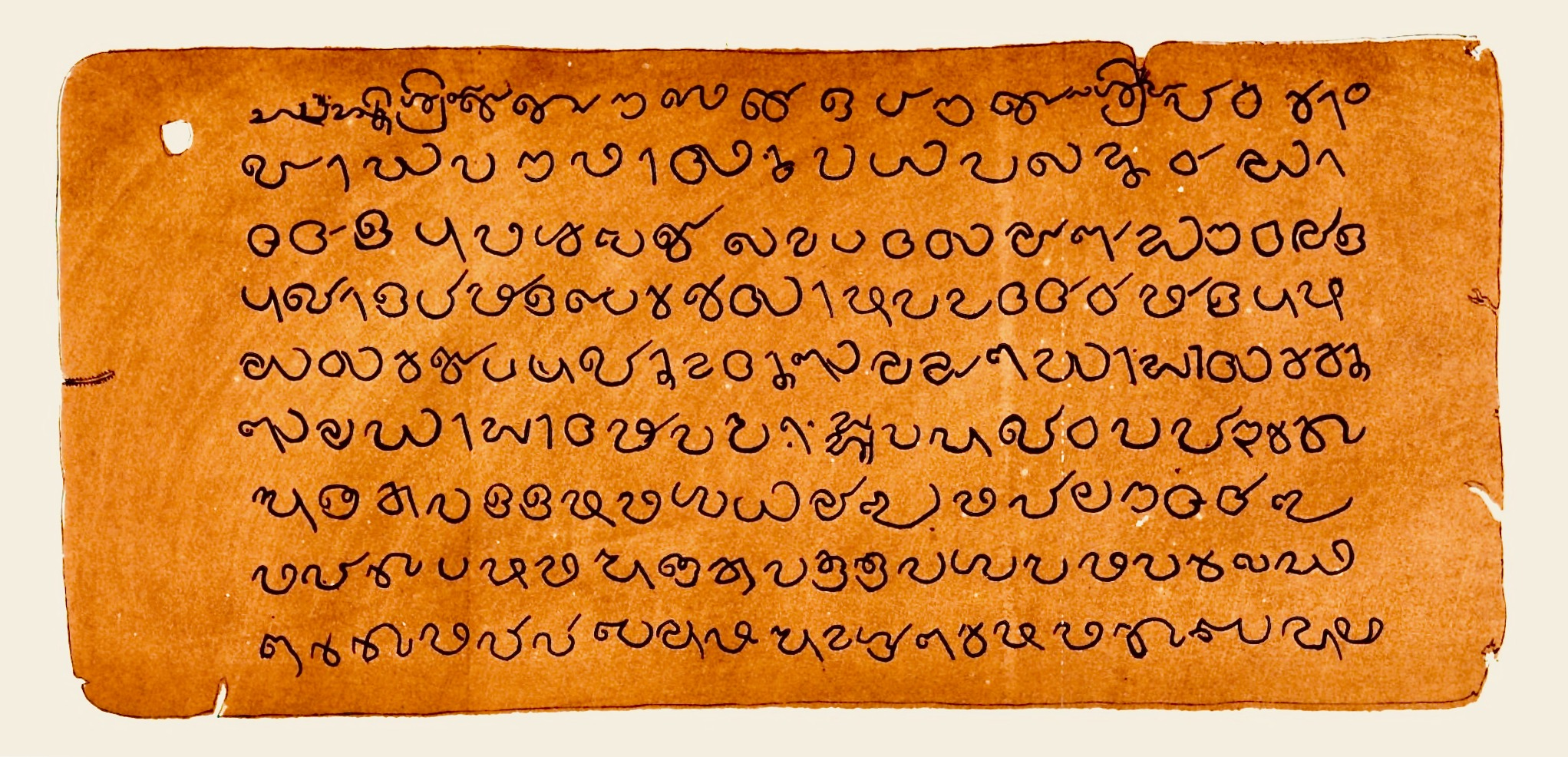 Royal charter (plate I, side I) issued by the Chera/Perumal king of Kerala, south India to Joseph Rabban, a Jewish merchant magnate of Kodungallur. The charter shows the status and importance of the Jewish colony in Kodungallur (Cranganore) near Cochin. 28 lines on three sides of two copper plates Date: Early 11th century AD Script: Vatteluttu (with Grantha/Southern Pallava Grantha script) Language: early form of Malayalam This is a photo of a 2-D artwork created before the 11th-century CE. Therefore Wikimedia Commons PD-Art licensing guidelines apply. Any rights I have as a photographer is herewith donated to Wikimedia Commons under CC 4.0 license.